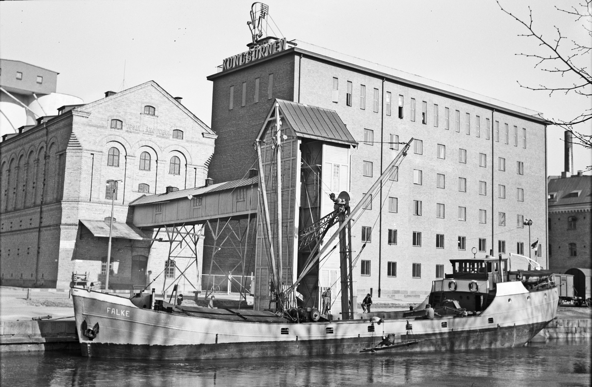 Coaster FALKE (IMO 5112107) originally built at Lübecker Maschinenbau Gesellschaft, Lübeck, in 1923 as dredger/lighter (barge). Lengthened an rebuilt to motor cargo vessel at Schiffswerft W. Holst, Hamburg-Neuenfelde, in 1935, photo taken in April 1959 by J. Robert Boman (1926 - 2002), copyright owned by Sjöhistoriska museet.